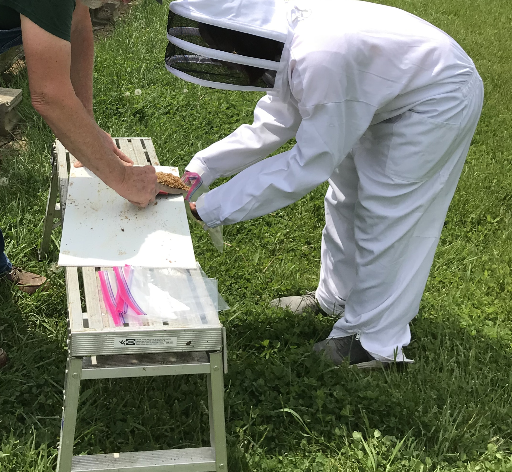 collect mites from the bottom board of a managed hive